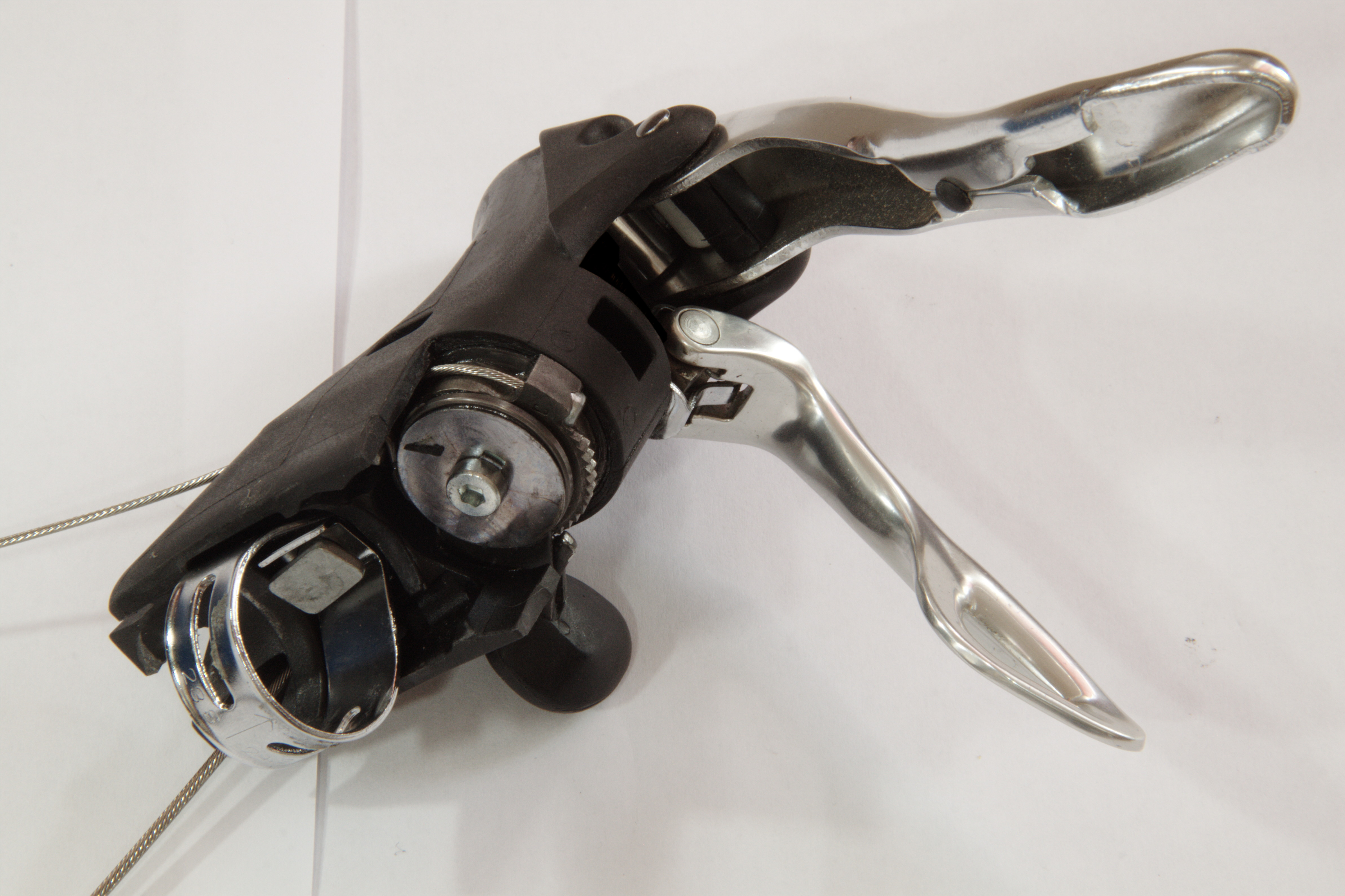 10-speed Campagnolo Centaur Ergopower Shifter for a racing bicycle, for a right hand.